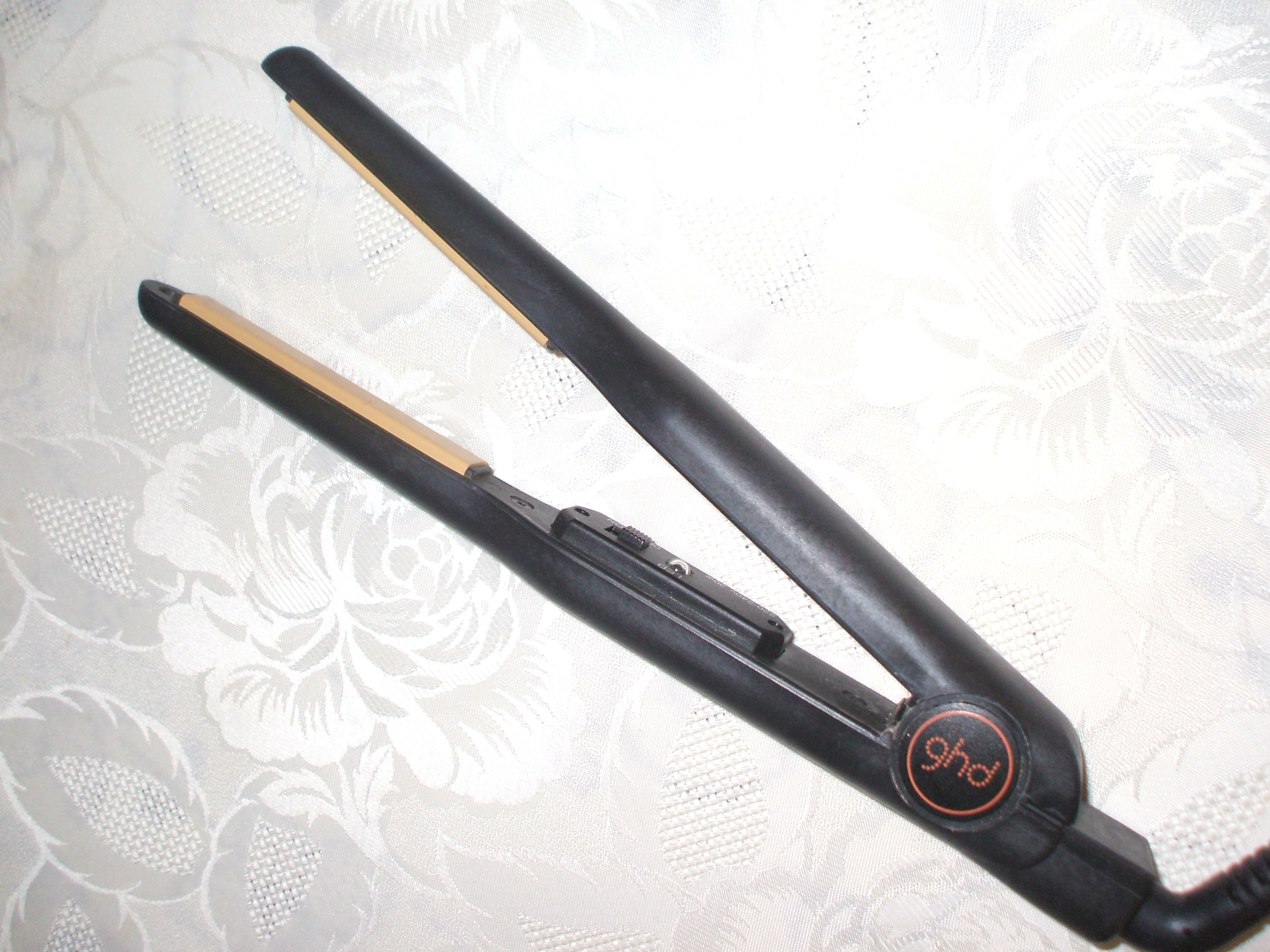 GHD MiniIron 2007.